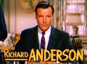 Cropped screenshot of Richard Anderson from the trailer for the film I Love Melvin.